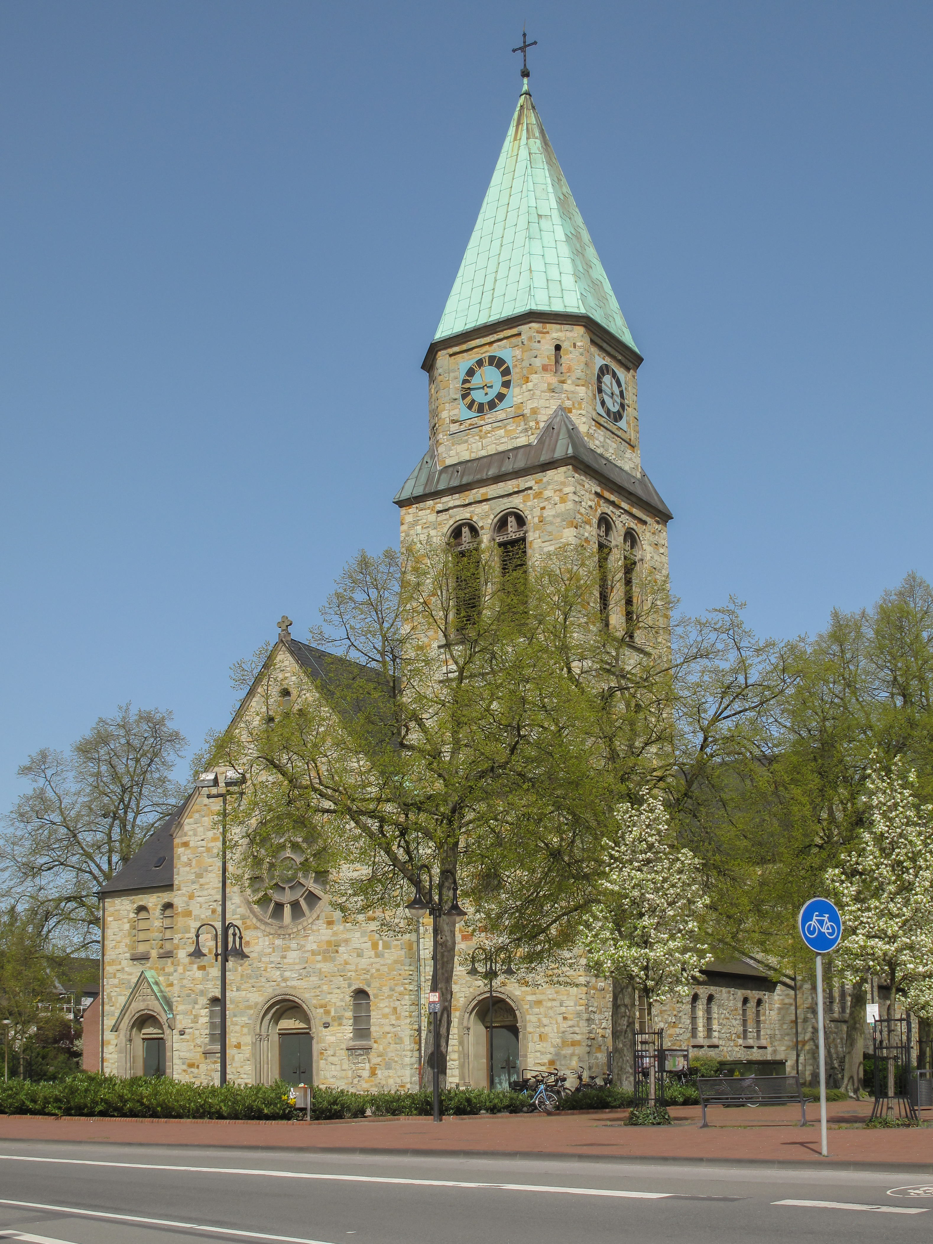 Kirchhellen, church